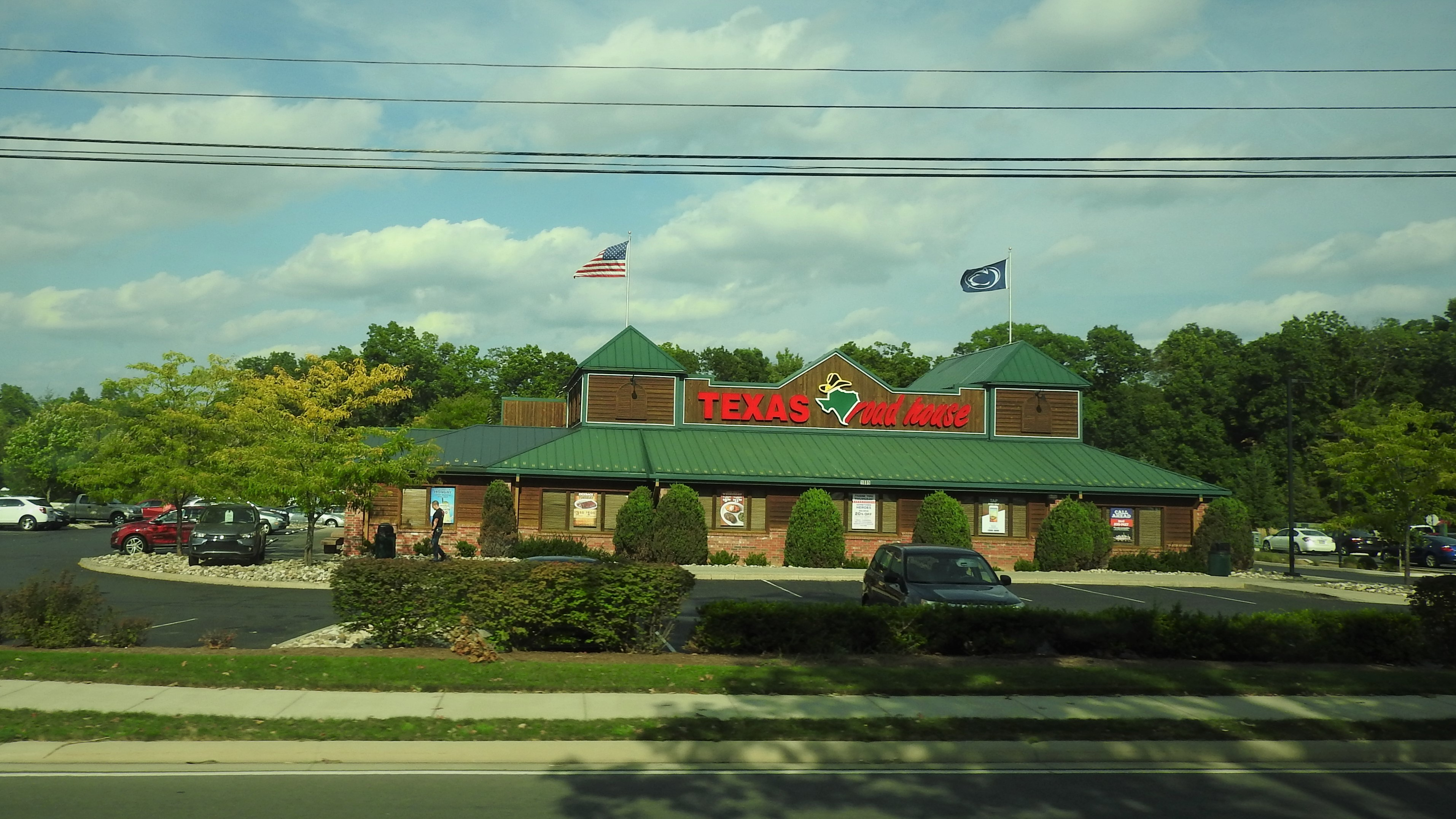 From a passing bus on Waddle Road